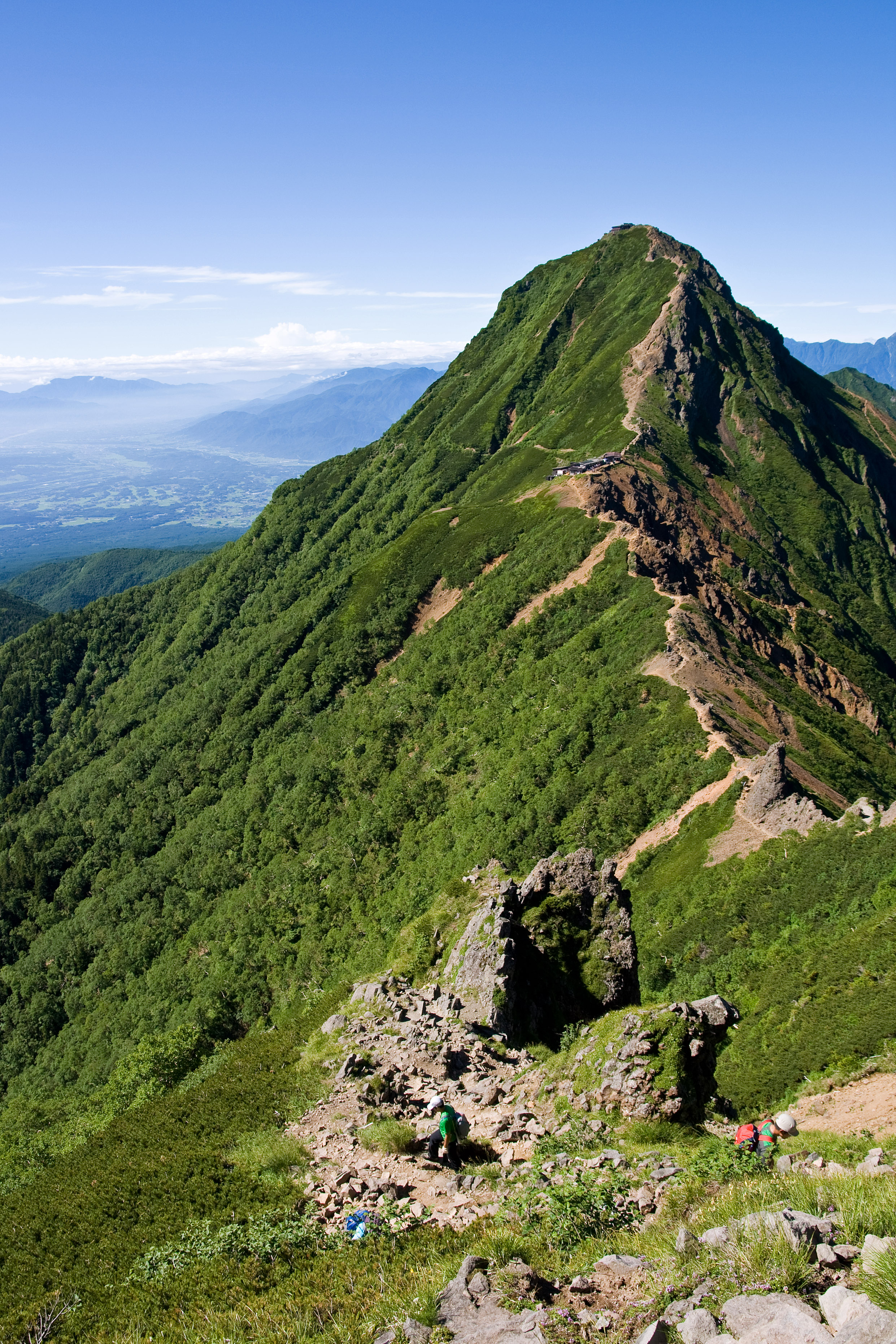 Mt.Akadake as seen from Mt.Yokodake in the Southern Yatsugatake Volcanic Group, Nagano Pref., Honshu, Japan.